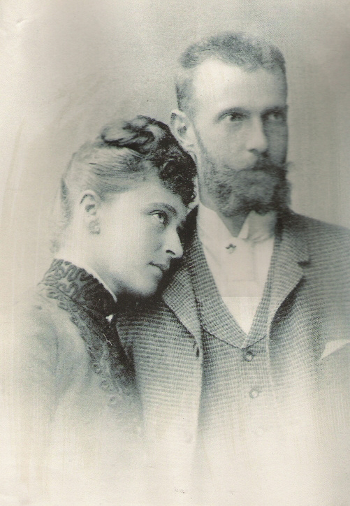 Grand Duke Sergei Alexandrovich of Russia (d.1905) with his wife Grand Duchess Elizabeth Fyodorovna